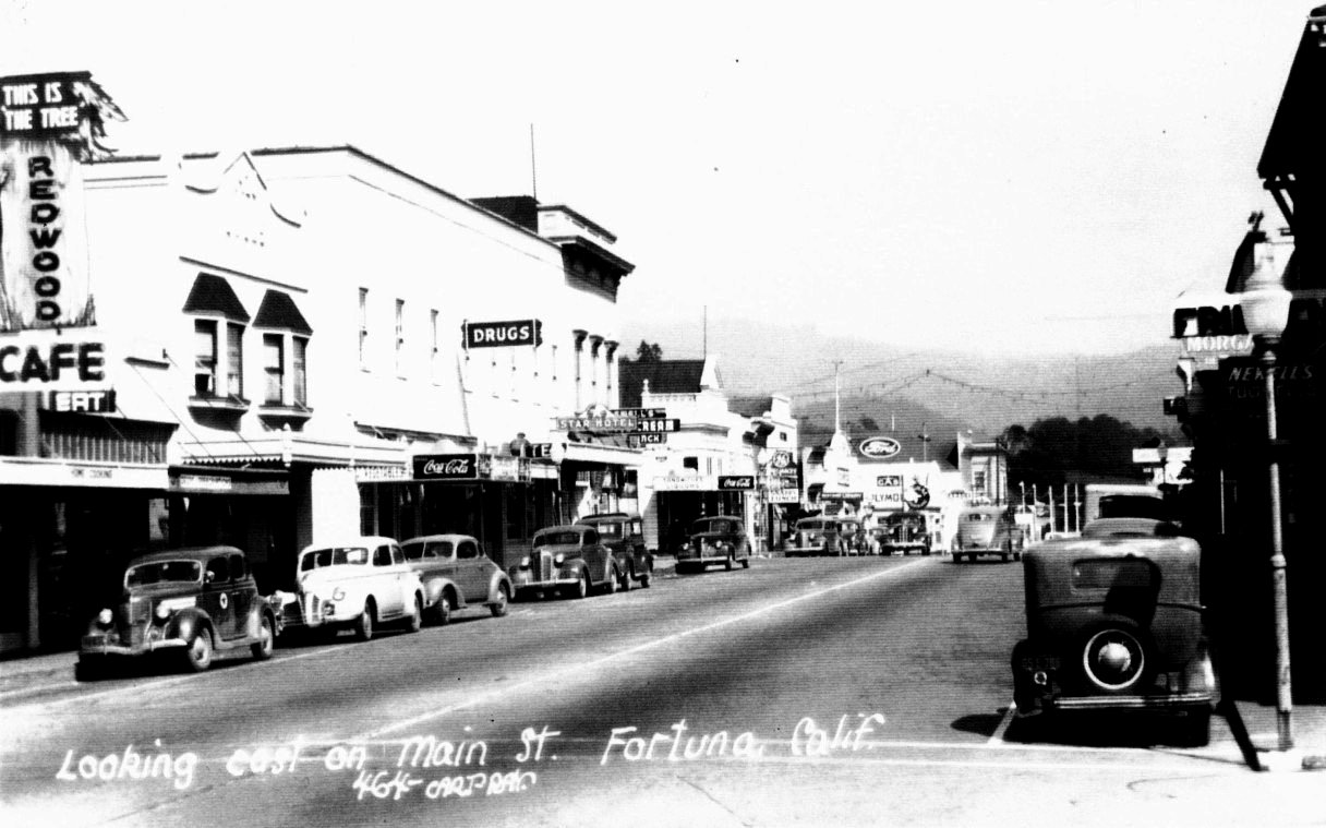 Fortuna, California, Main St., 1940s. Old postcard.